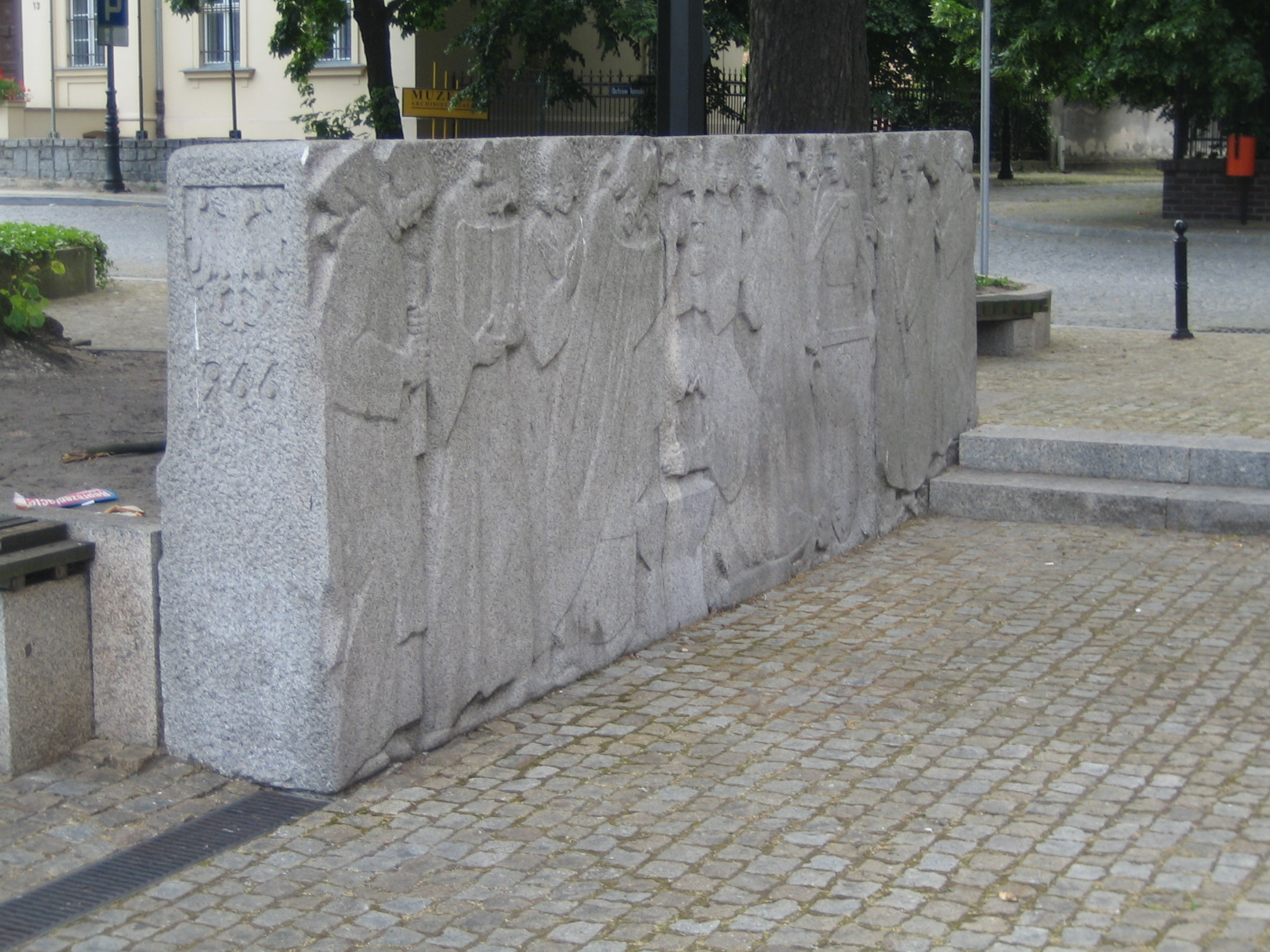 Tysiąc lat chrztu Polski" autor Kazimierz Bieńkowski , plac przed Katedrą w Poznaniu (cz.2)